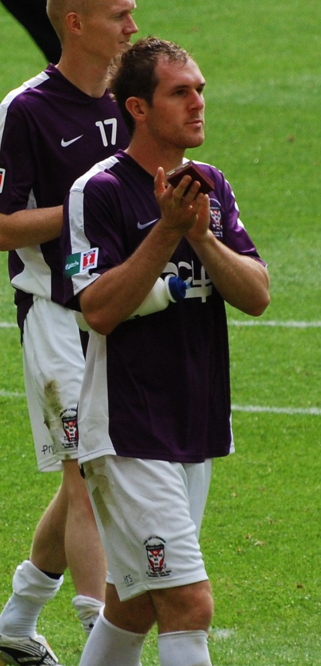 Shaun Pejic after playing for York City against Stevenage Borough at Wembley Stadium, London on 9 May 2009